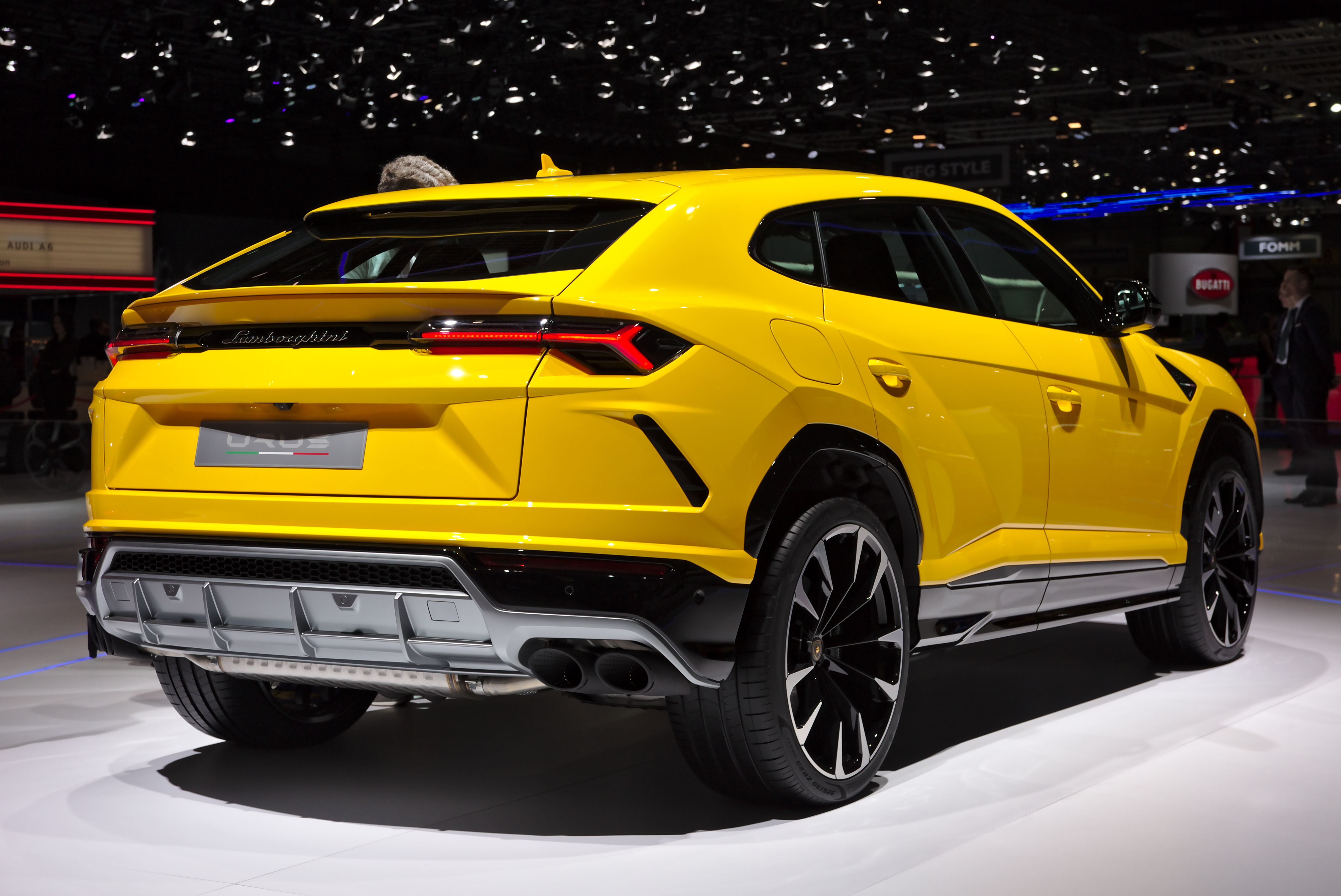 Lamborghini Urus at Geneva Motorshow 2018